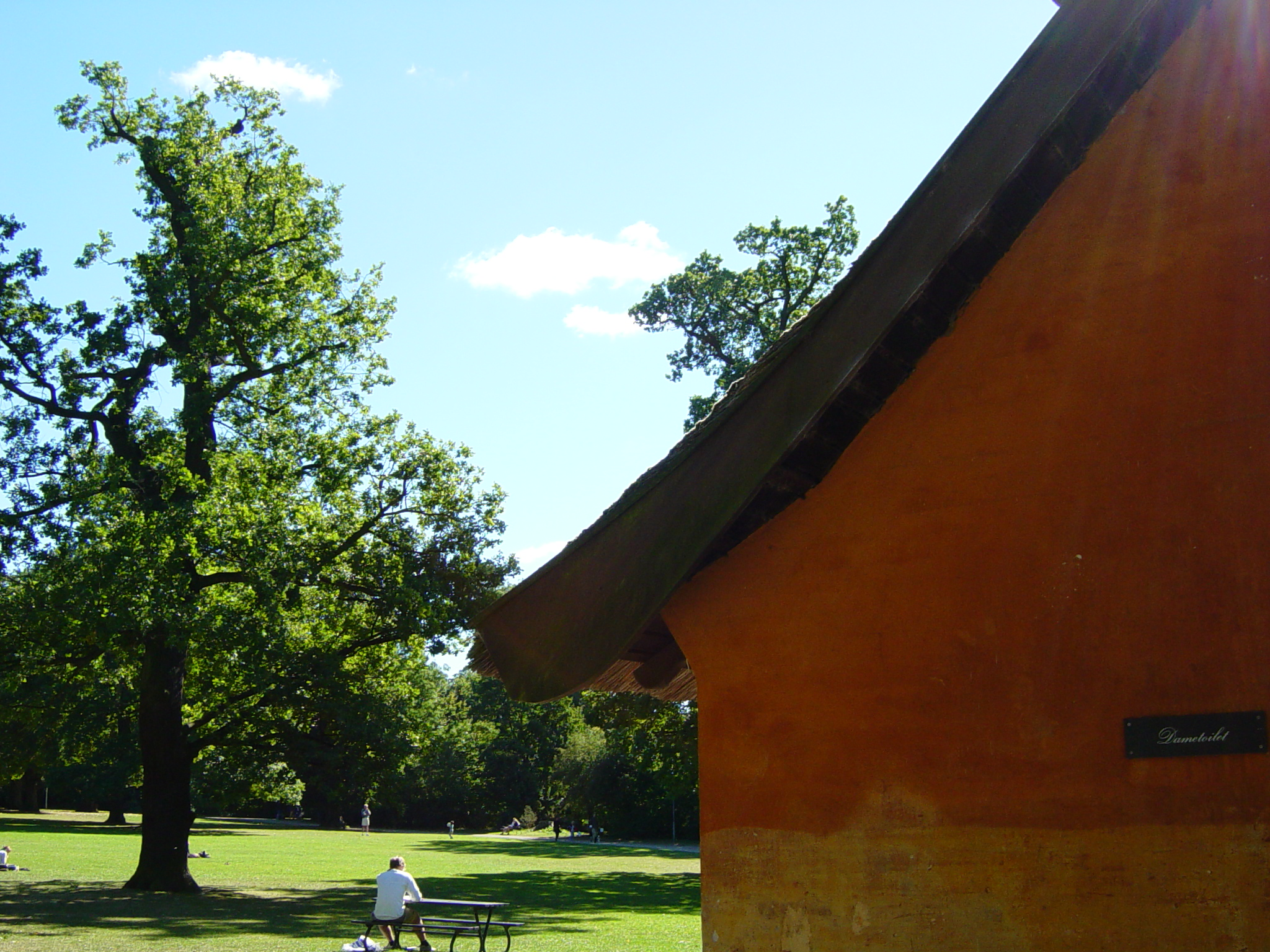 Yellow-washed house in the Søndermarken park in the Frederiksberg district of Copenhagen, Denmark